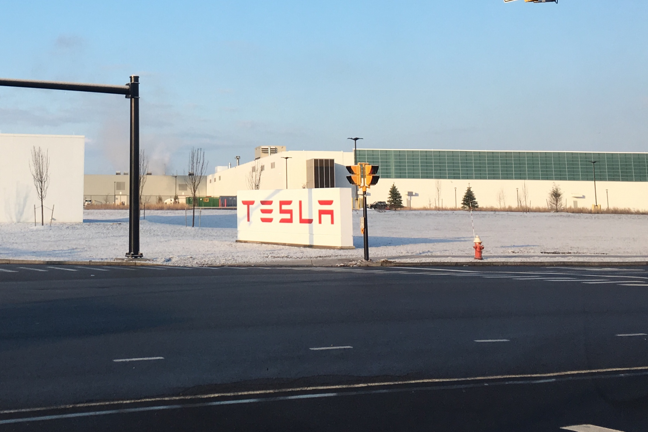 Tesla sign Buffalo